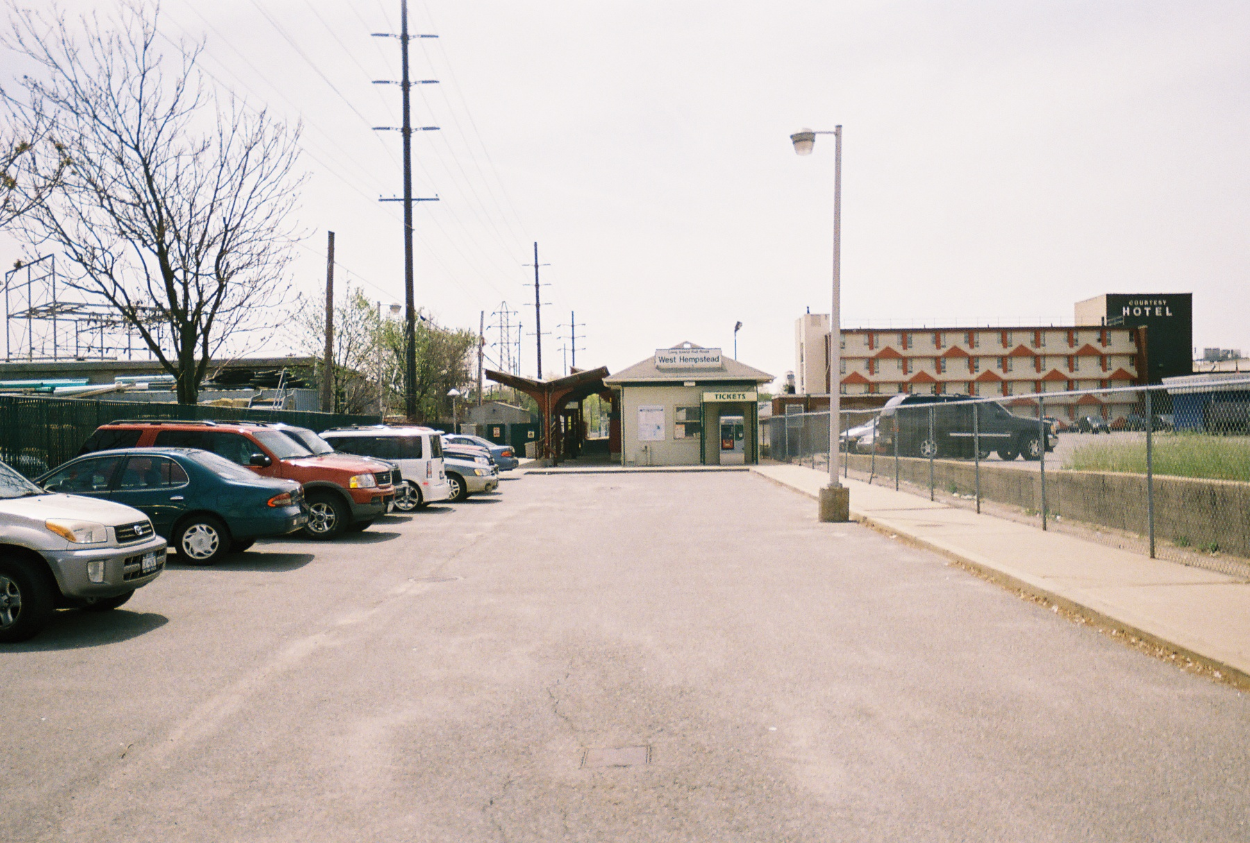 Front view of the West Hempstead Long Island Railroad Station from the parking lot on Hempstead Avenue.